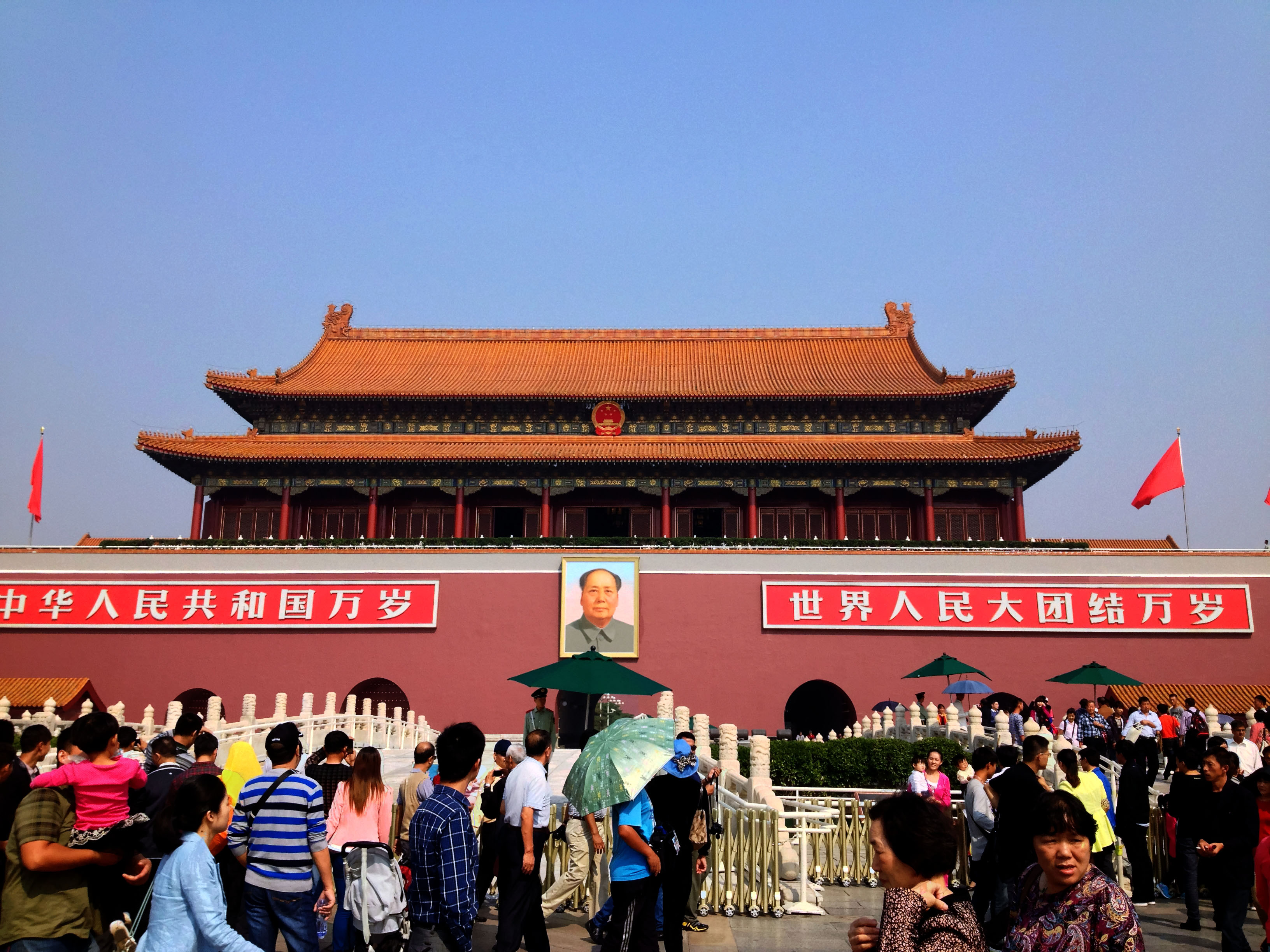 Palaces, avenues, buildings, parks, and scenery around China's Capital Tower of Tiananmen square with a picture of Mao